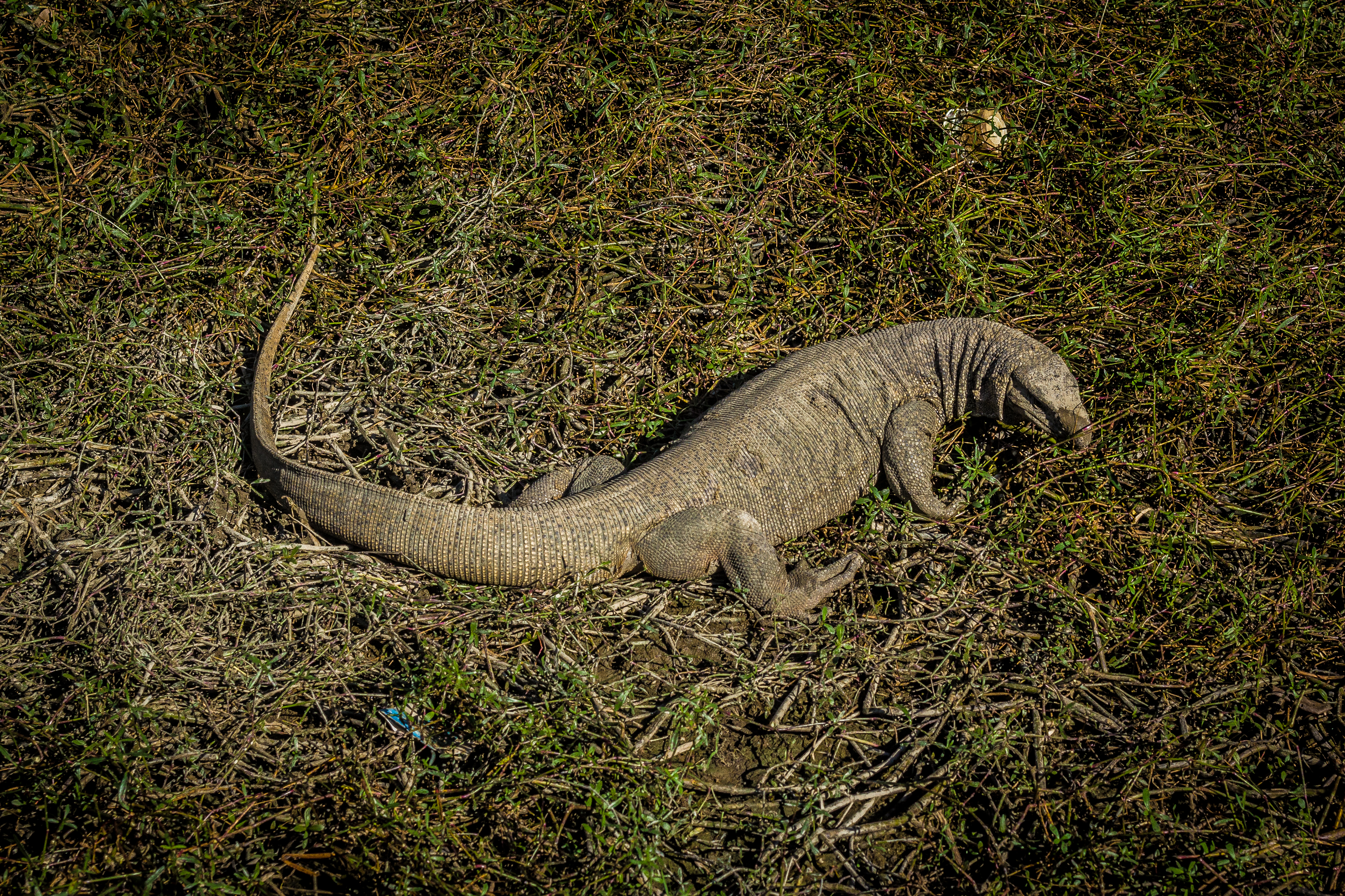 Water Monitor, Bangabandhu Sheikh Mujib Safari Park